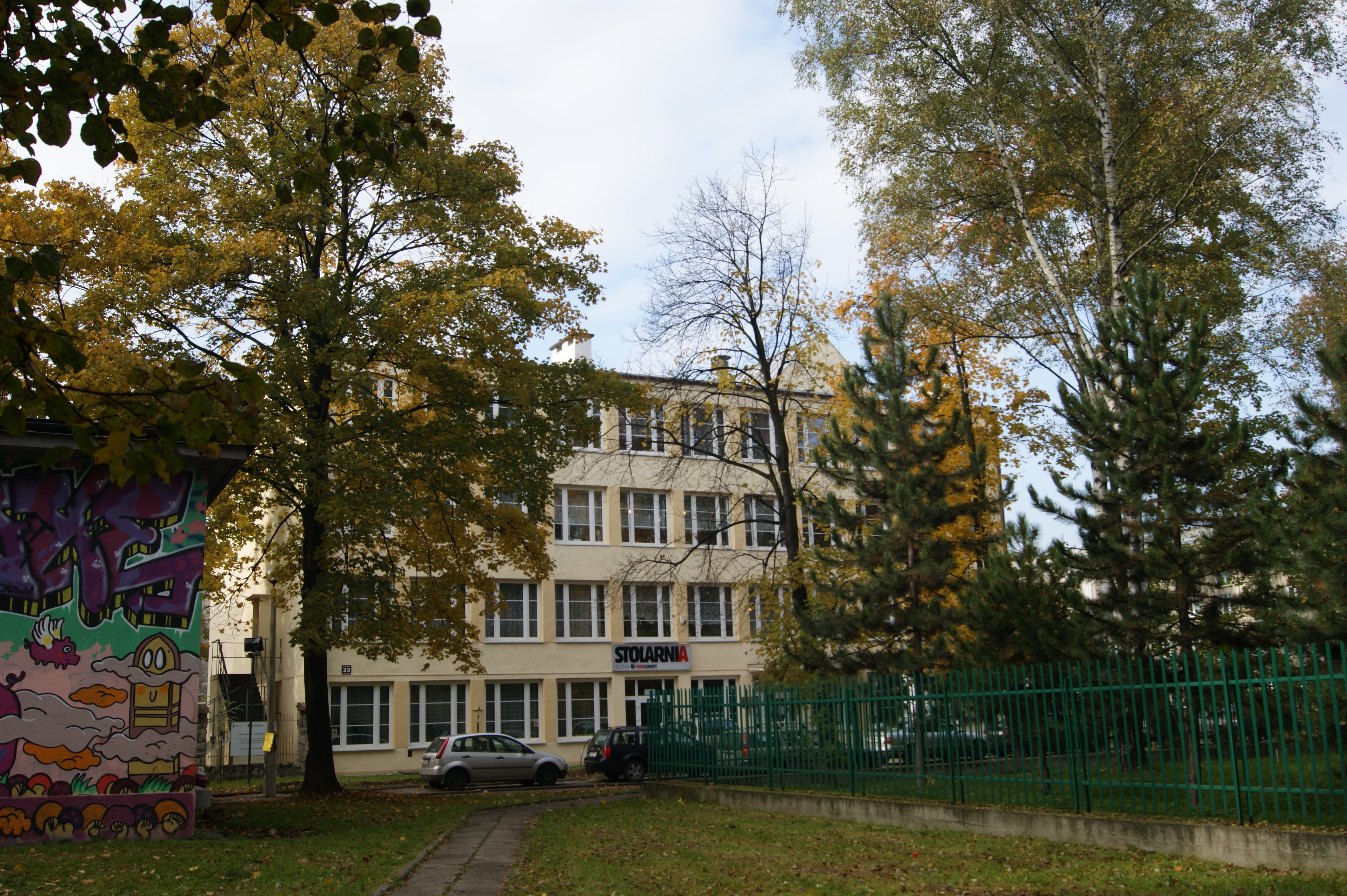 Ludowy Theater-Stolarnia, 23 Teatralne,Nowa Huta,Krakow,Poland